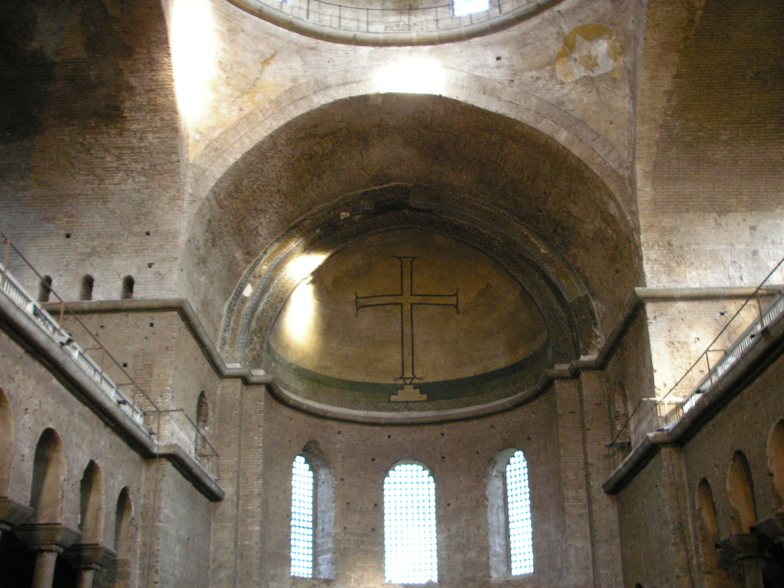 Image of Hagia Eirene church in Istanbul, next to Topkapi Palace.